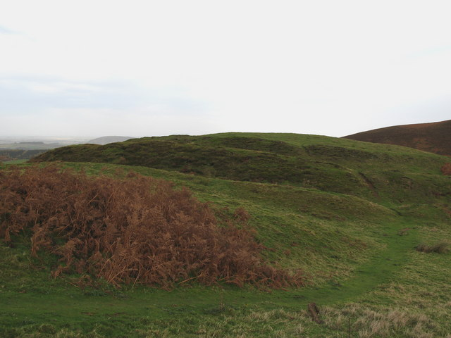 White Castle Fort, Garvald An Early Iron Age fort stands on a promontory defended on three sides by steep slopes. It is oval measuring internally 230ft by 180ft, and is surrounded by triple ramparts which may have been topped by stone walls.